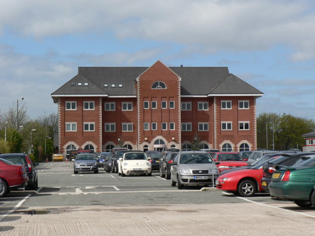 Back o' th' Bank House, Hereford St, Bolton The Head Office of Warburtons the bakers. Unusually, the company which has been operating since 1876, is still owned by the Warburton family, several of whom take an active part in managing the business. They are a growing business with more than 10 bakeries around the UK. See their website